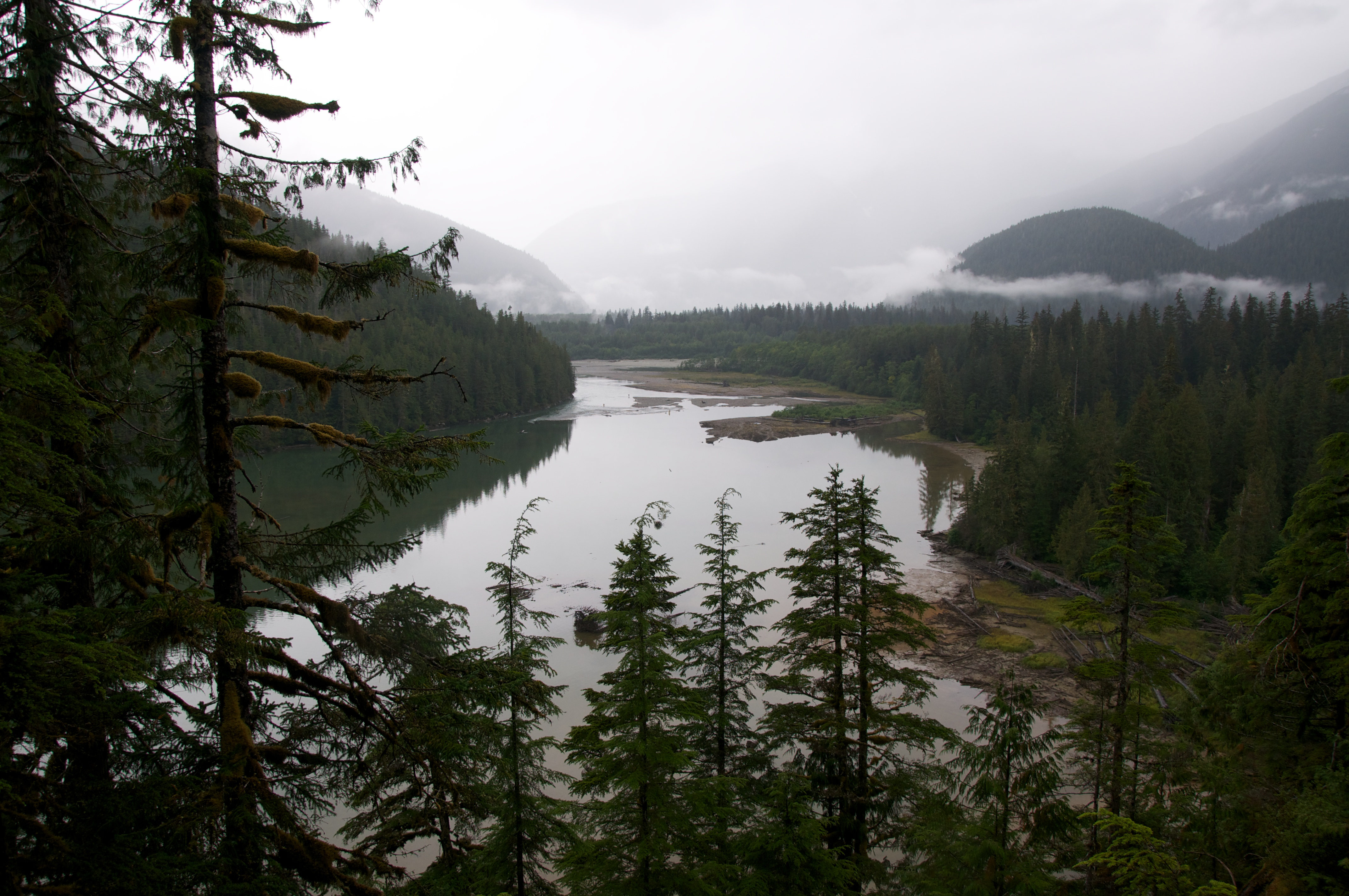 Kitlope Lake, in the Kitlope Wilderness Conservancy, British Columbia, Canada